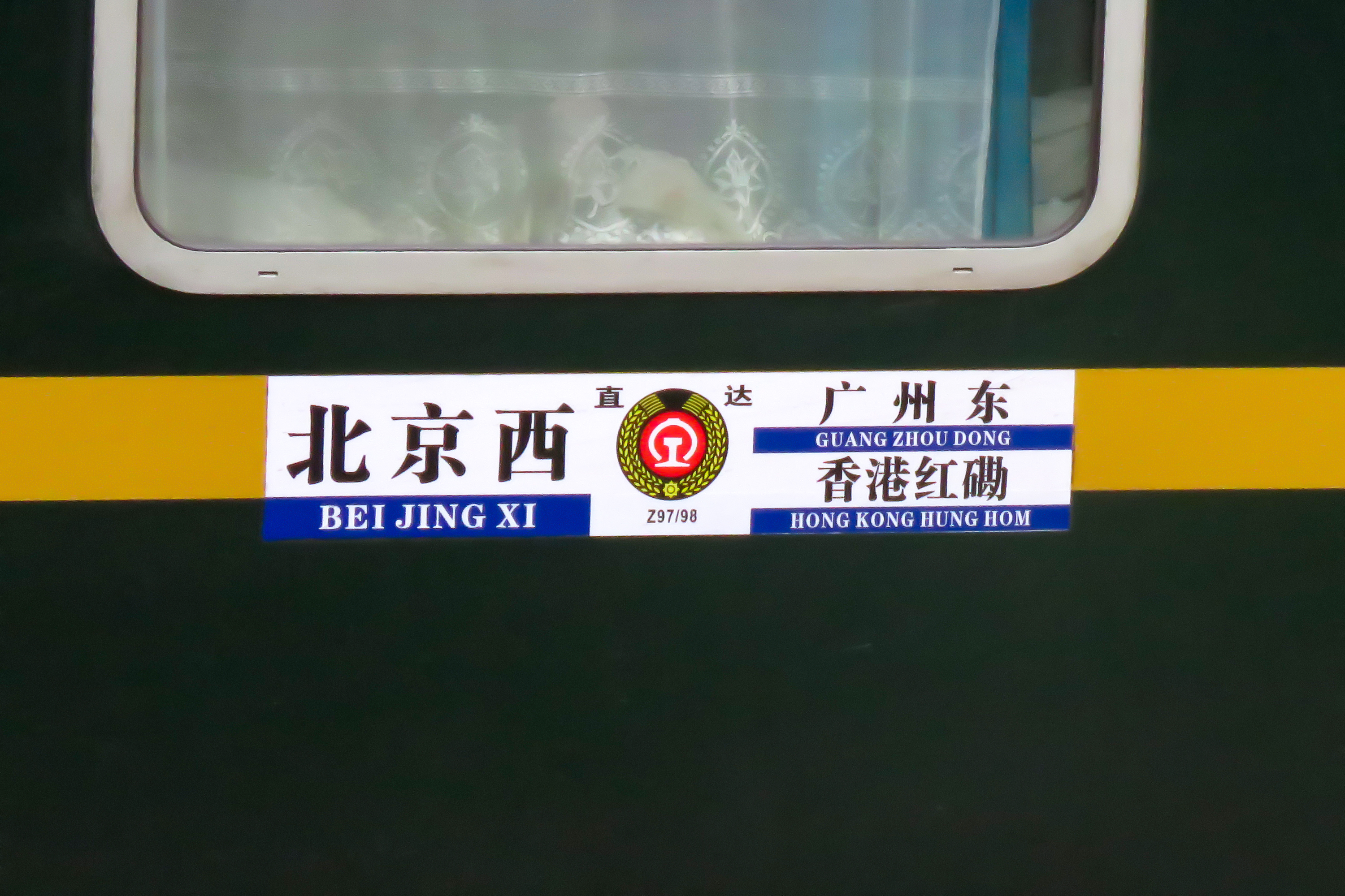 Finally, the "Jiulong" is replaced by "Hong Kong Hung Hom", and Kowloon Station (AEL/Tung Chung Line) shall never concern about namesake problems from now! At least CR doesn't label the terminus as "XIANG GANG HONG KAN" - so is it the first time for Cantonese romanization to appear on China Railway conventional train signs?